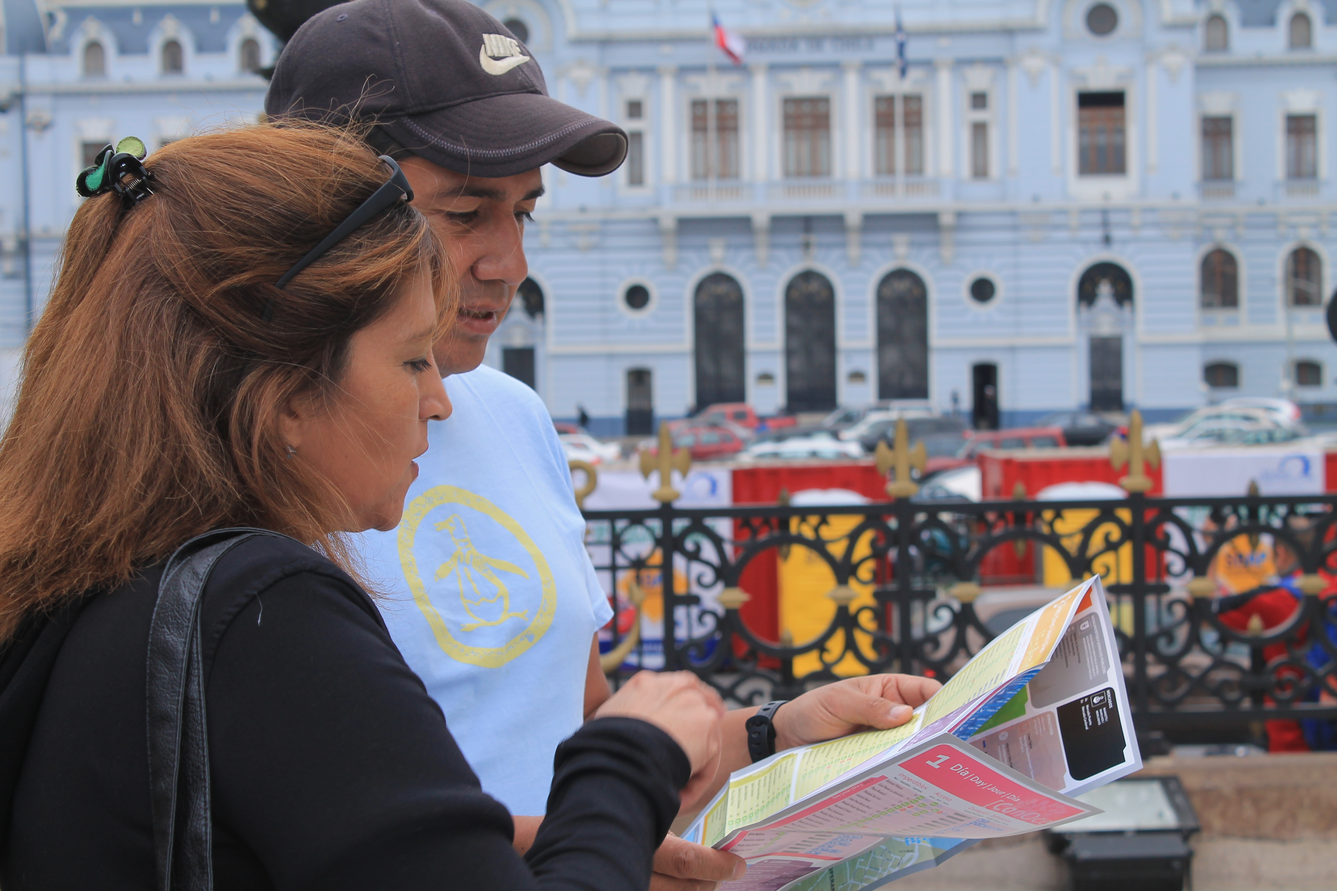 Tour Plaza Sotomayor, Valparaiso